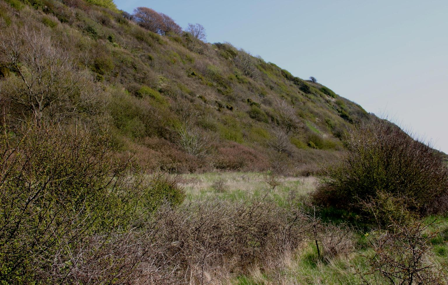 Jernhatten: A topographic point in Denmark on the coast of the Kattegat.